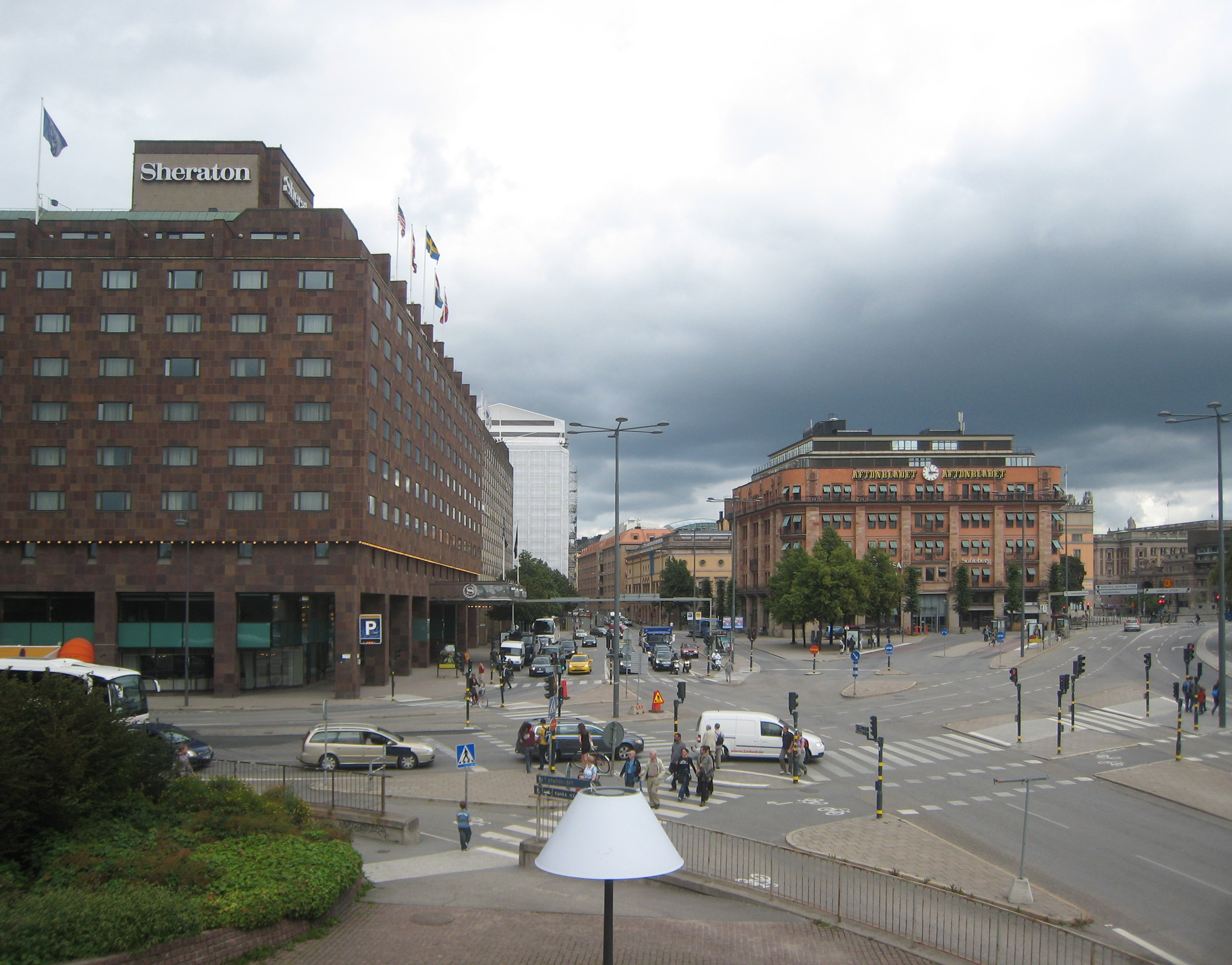 Tegelbacken